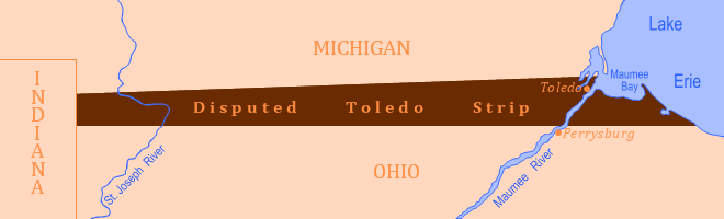 Map showing the formerly disputed area of northwest Ohio known as theToledo strip.